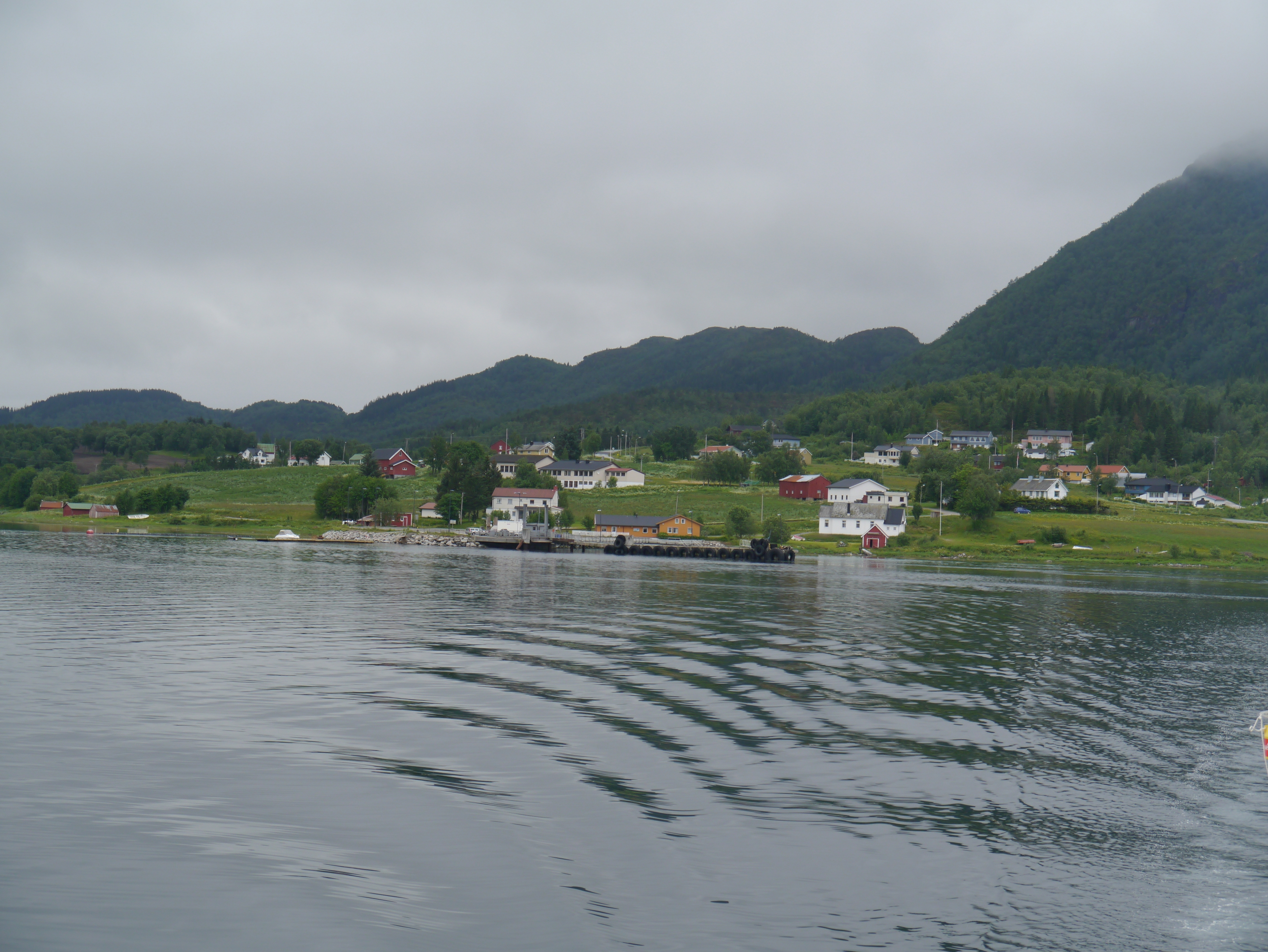 Landscape closely north of the Polar Circle near Foröy, Nordland Province, Northern Norway Ågskaret